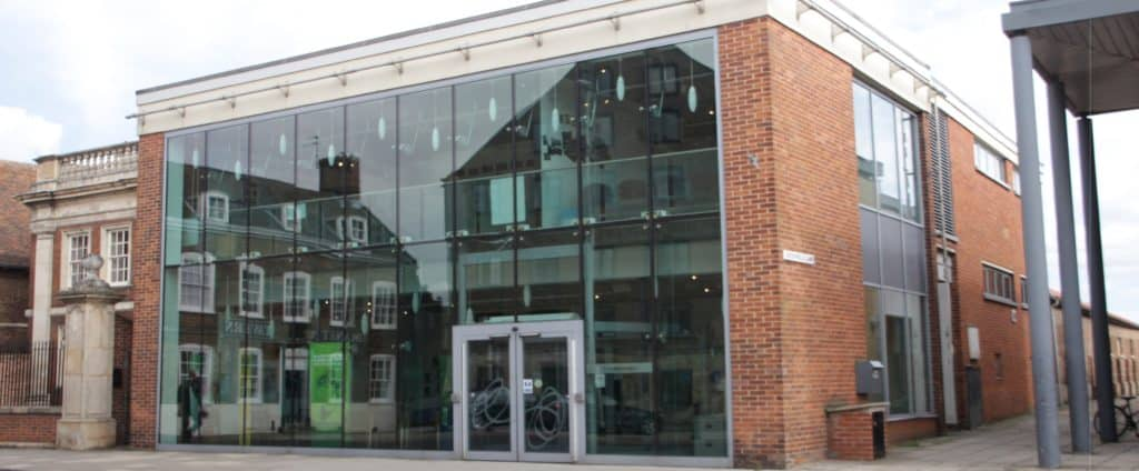 Nacro Boston Education Centre